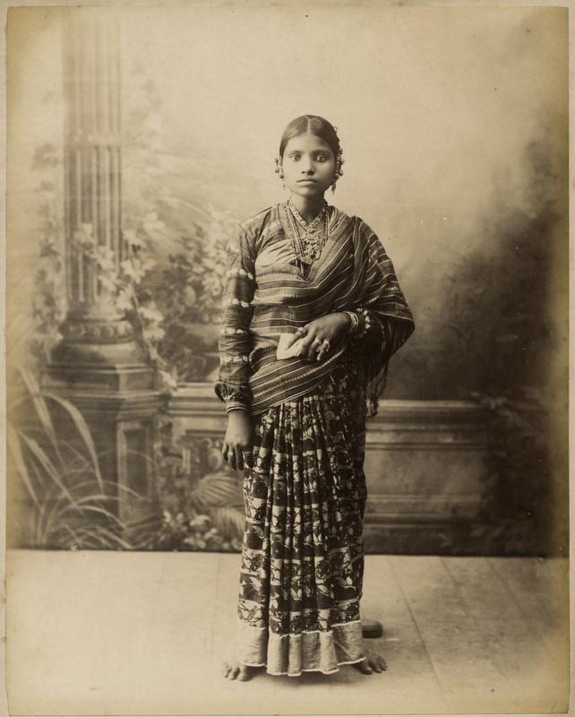 "Goanese serving maid," an albumen print, c.1880's Source: ebay, Nov. 2007